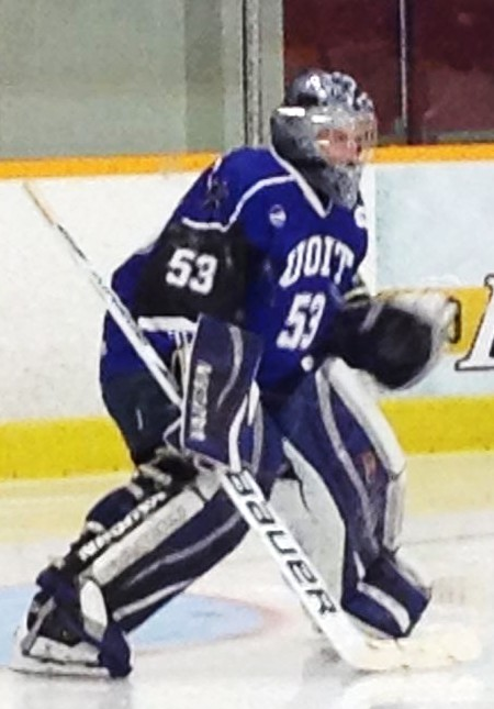 Photo taken by Devan Mighton of CIS men's hockey.